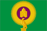 Varnensky rayon (Chelyabinsk oblast), flag